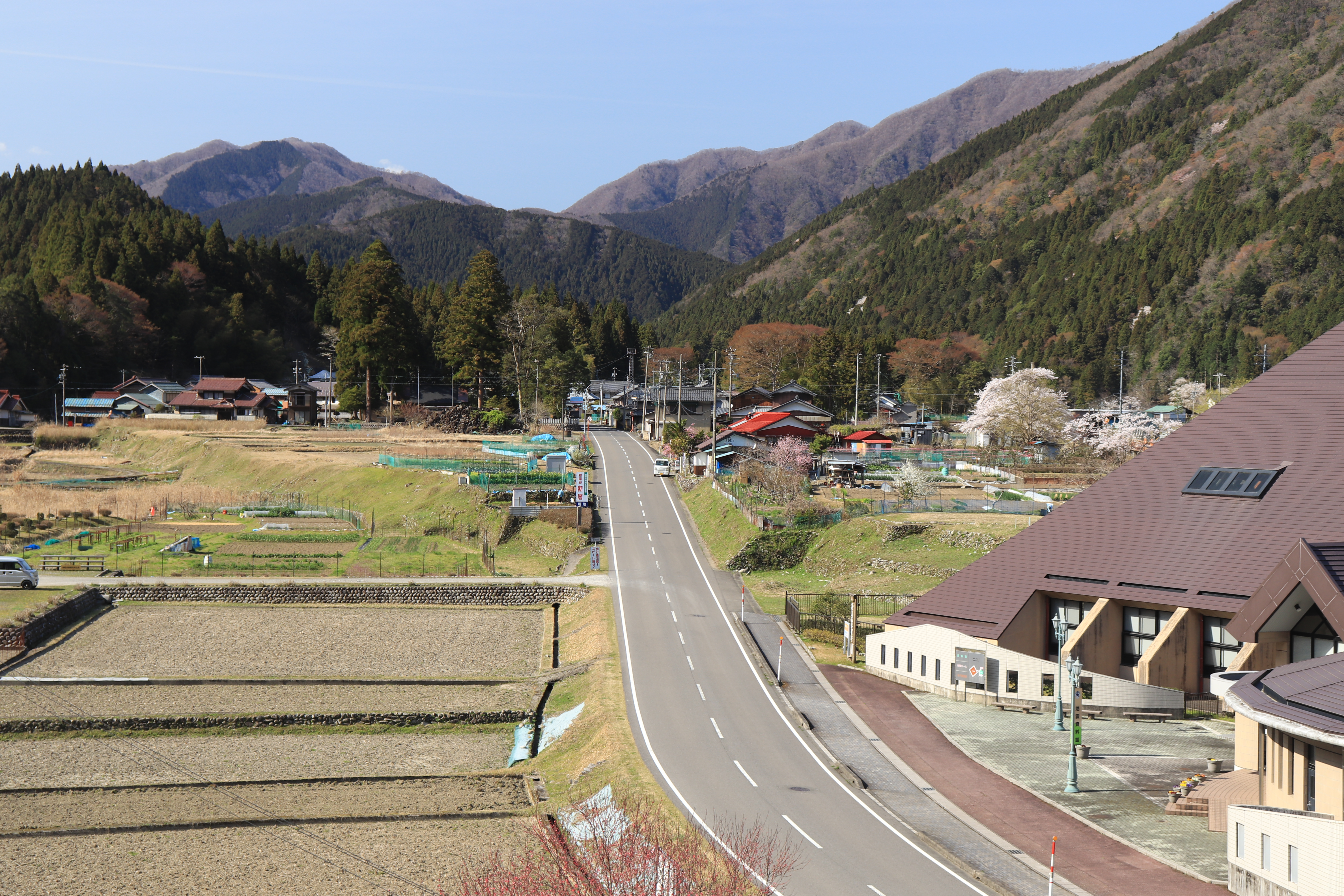 Neodani Fault and Gifu Prefectural Road Route 255 in Neomidori, Motosu, Gifu Prefecture, Japan. Canon EOS Kiss X9